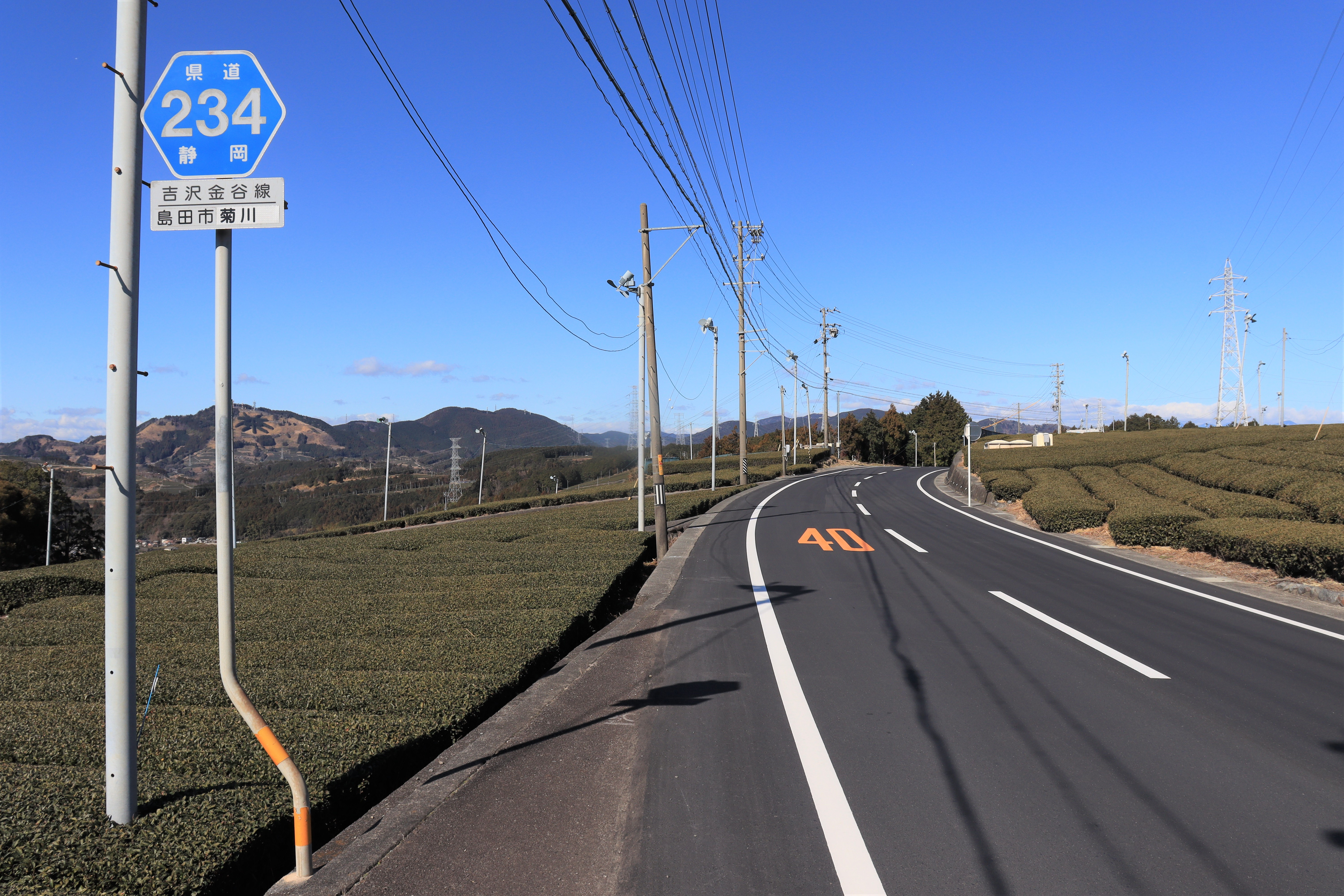 Shizuoka Prefectural Road Route 234 and Mount Awa in Kikugawa, Shimada, Shizuoka Prefecture, Japan.